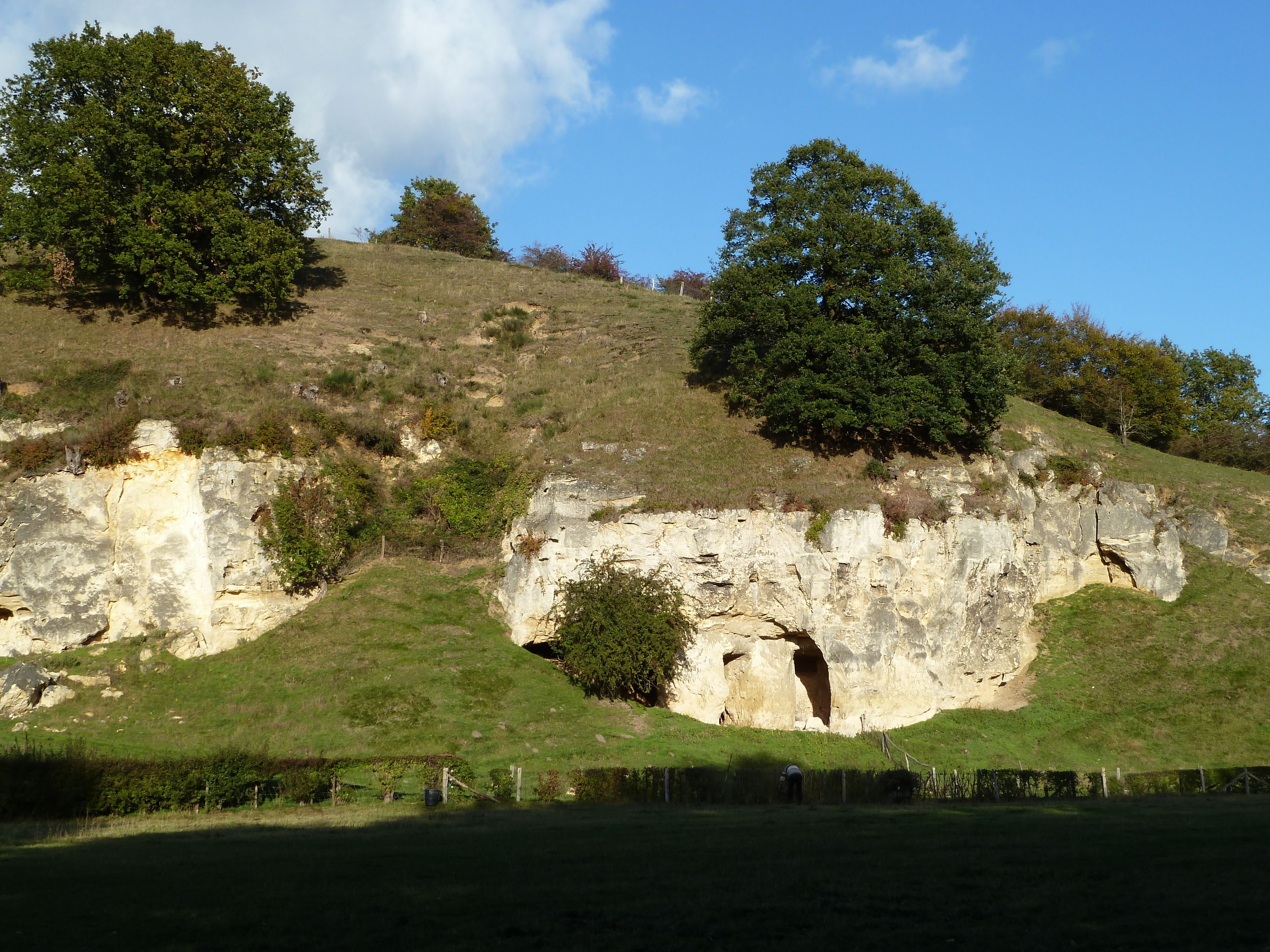 Bemelerberg, Bemelen, Limburg, the Netherlands